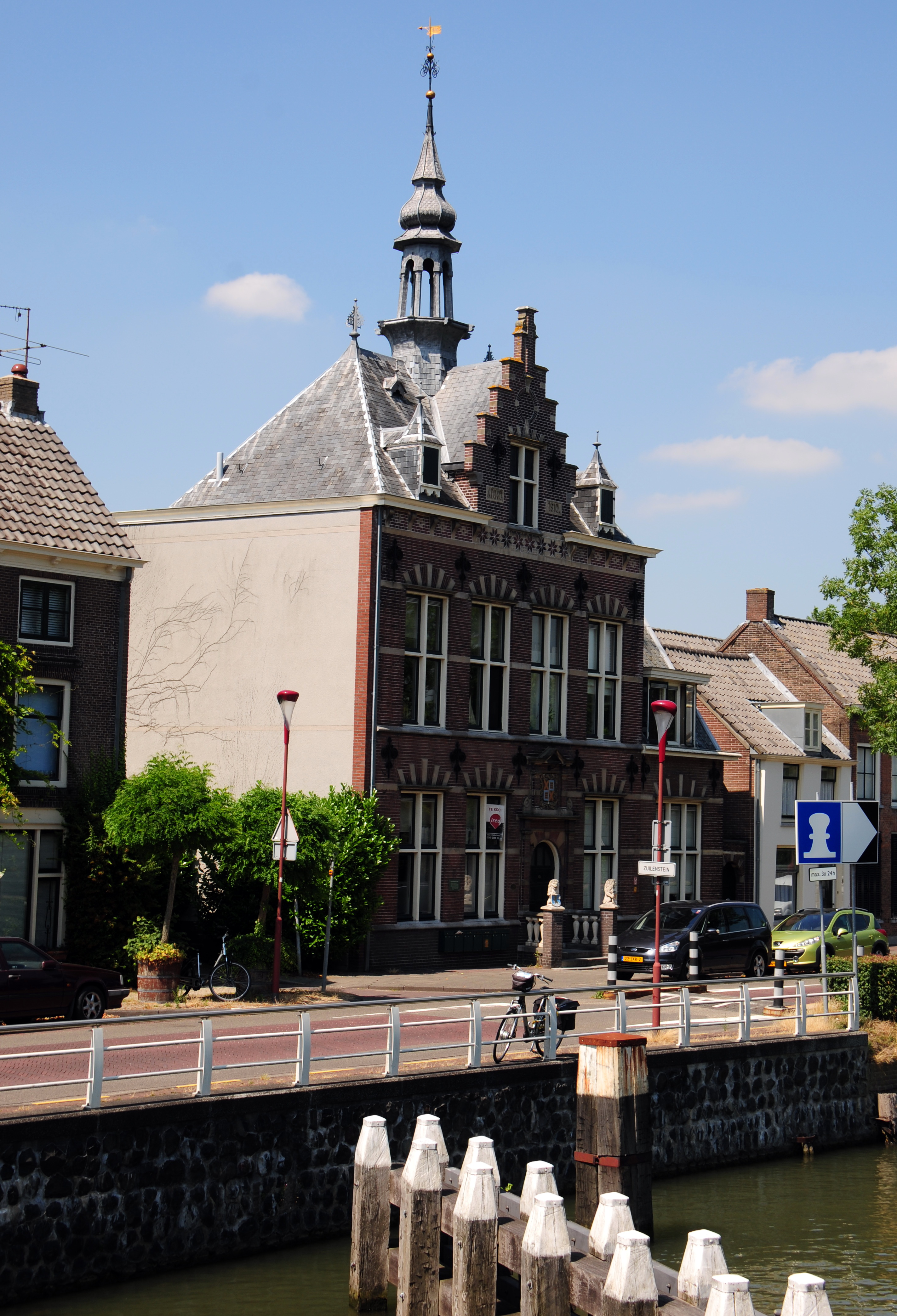 Old city building of Jutphaas at 10 July 2015